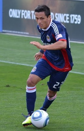 Marcos Mondaini with Chivas USA in 2011